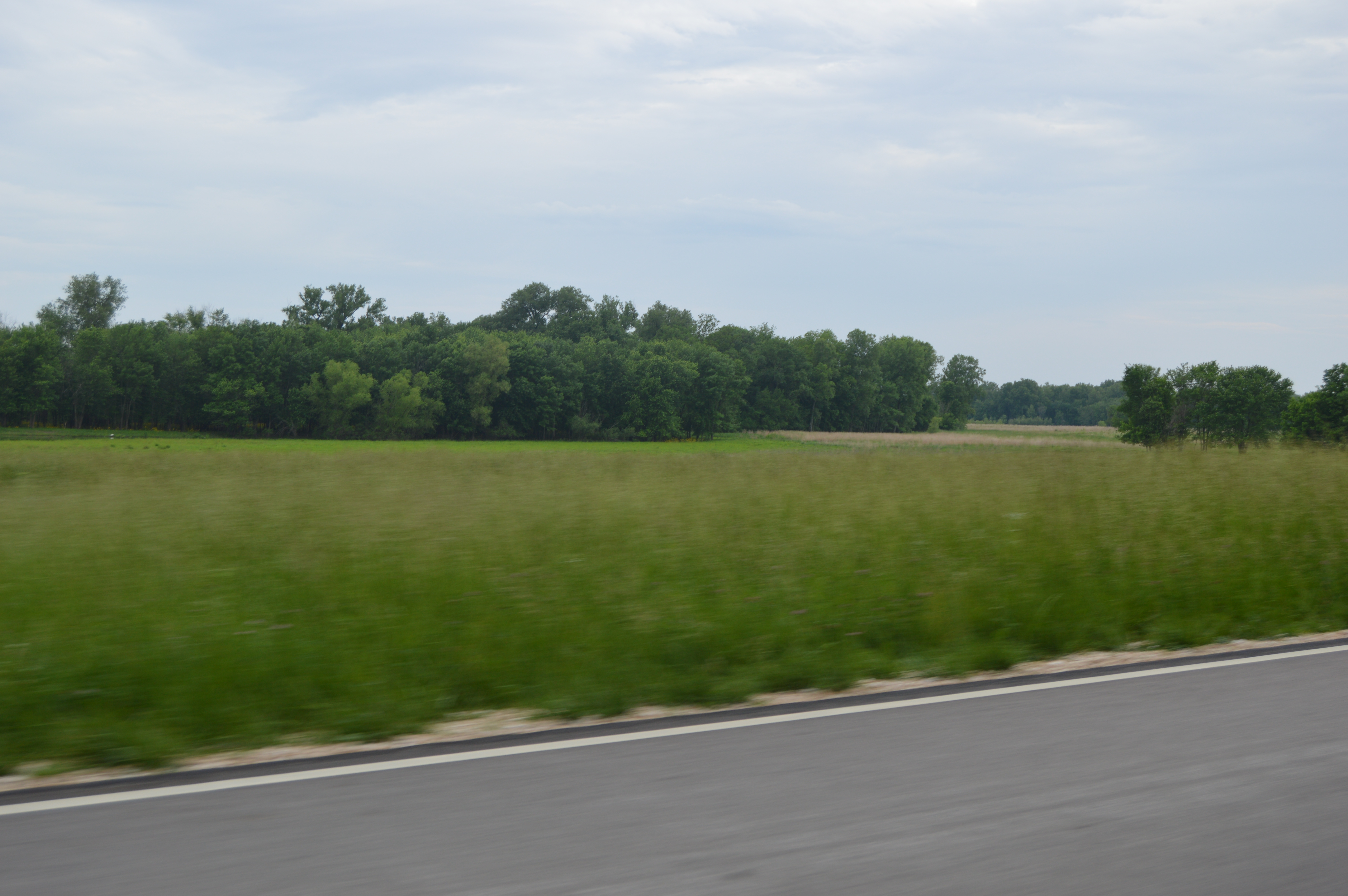 Overview of the western section of the Duncan Farm archaeological site, located off the southern side of Illinois Route 100 west of Grafton in Quarry Township, Jersey County, Illinois, United States. The site is listed on the National Register of Historic Places.